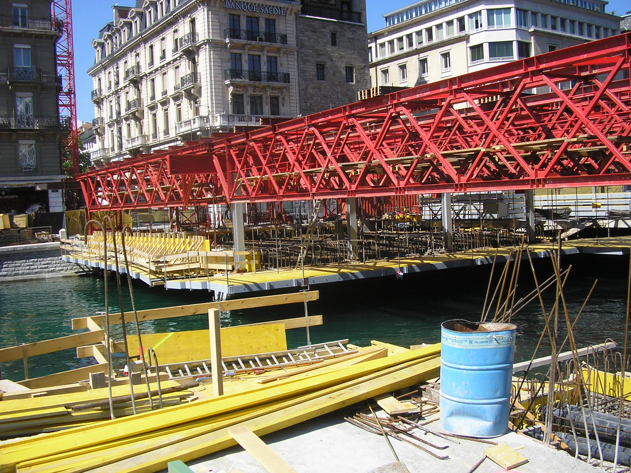 Formwork of a concrete bridge in the center of Geneva